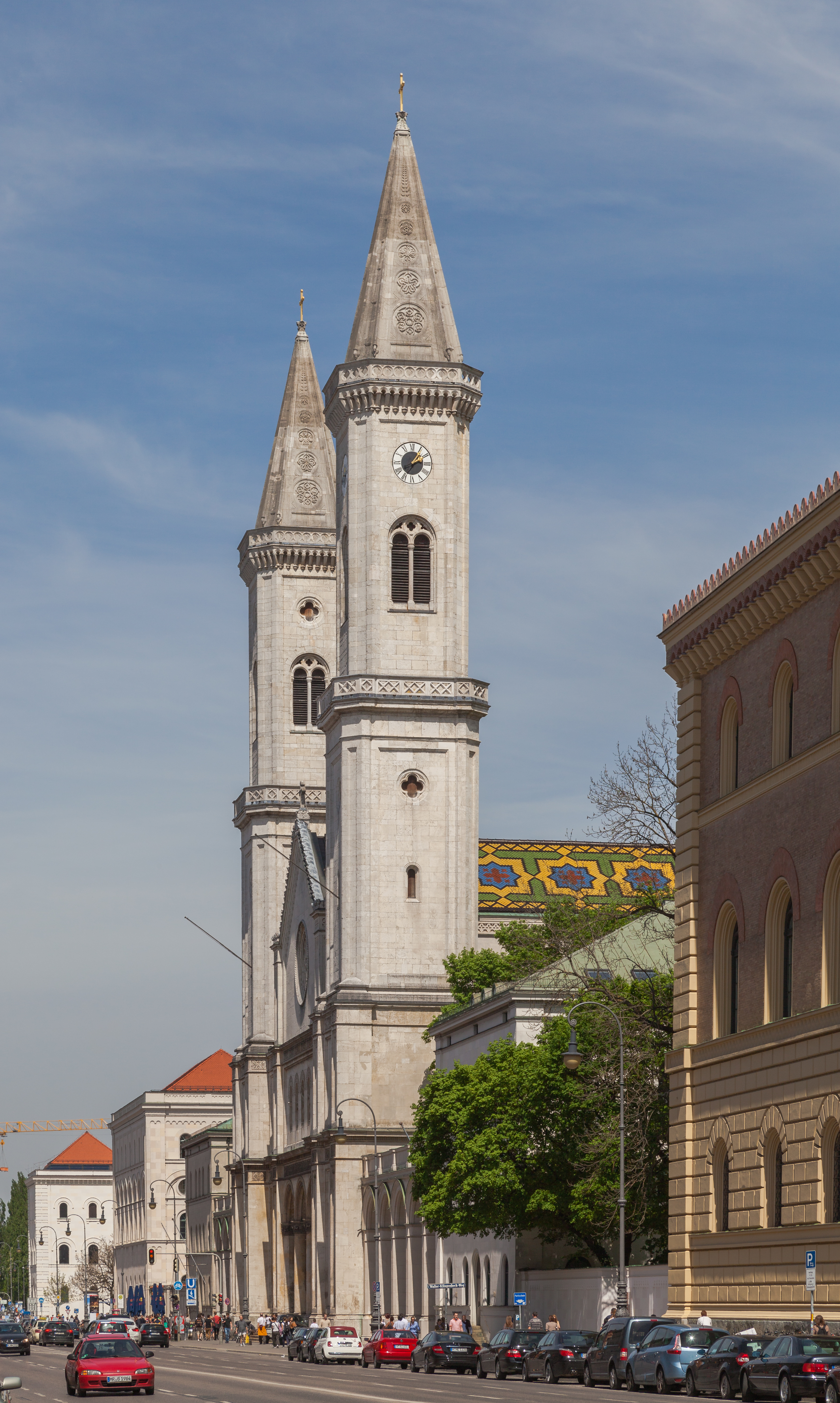 Church of St. Ludwig, Munich, Germany